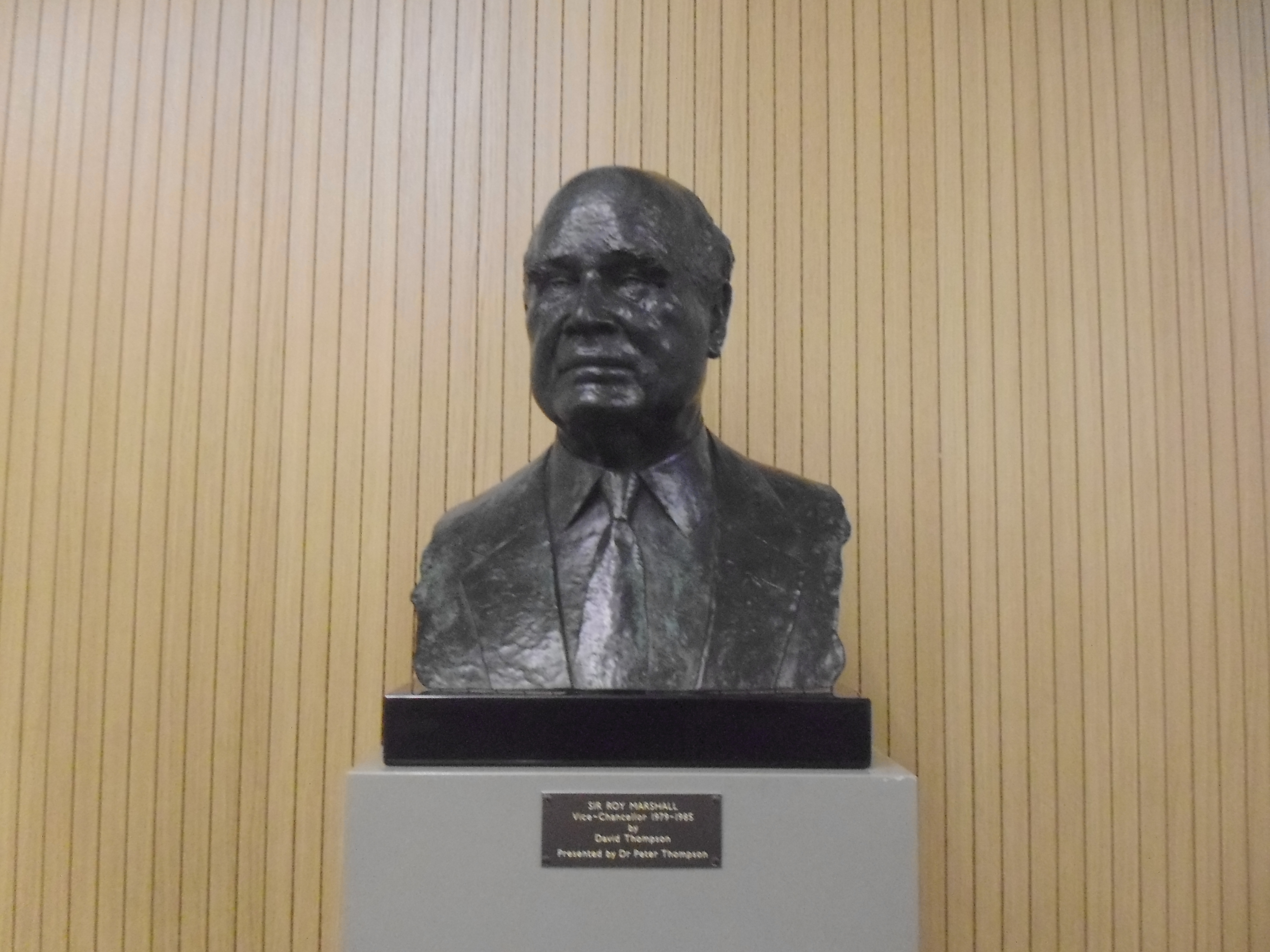 Bust of Sir Roy Marshall, former Vice-Chancellor of the University of Hull